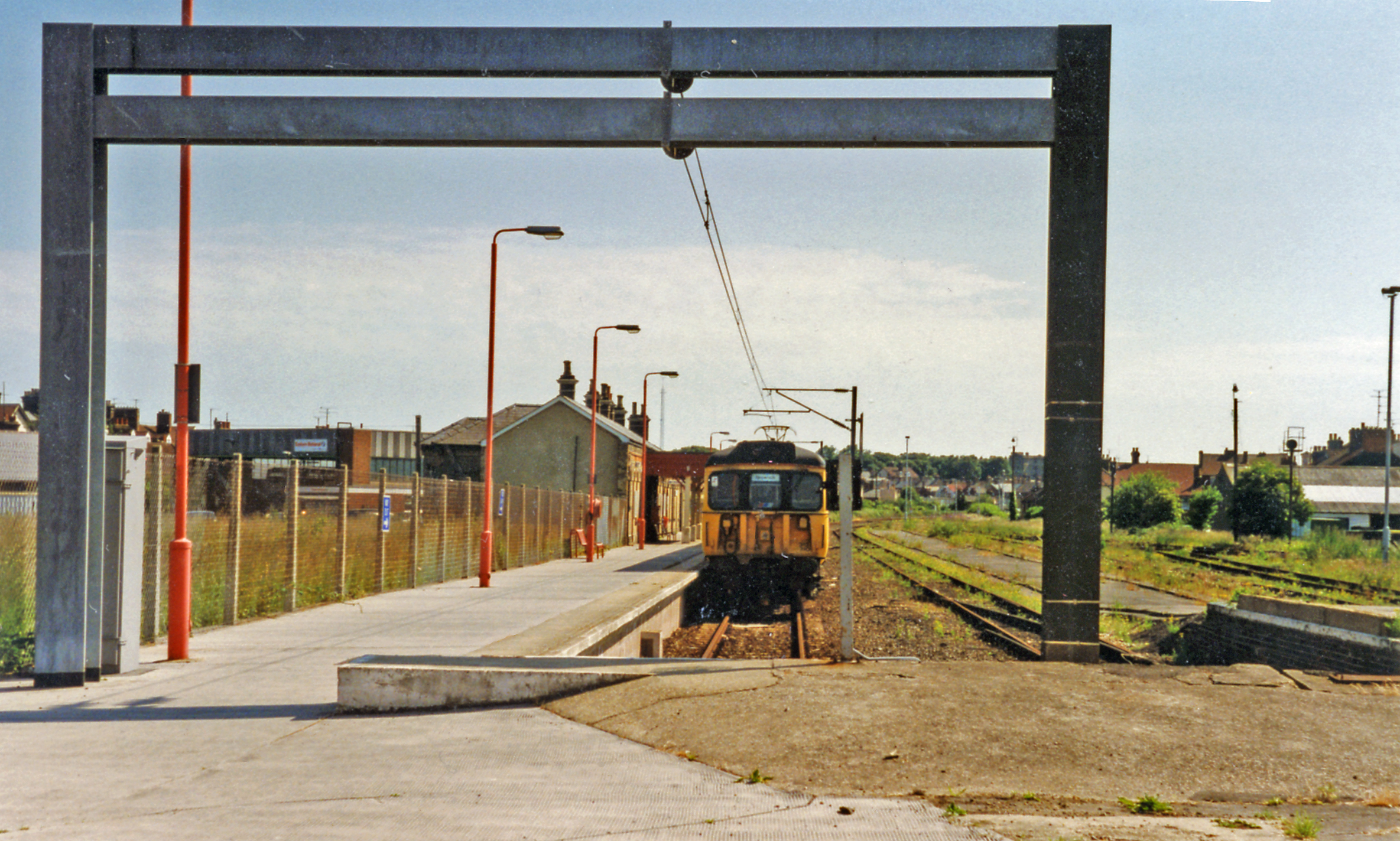 Harwich Town, terminus, 1997. View southward at the buffers, towards Manningtree, Colchester and London: terminus of the branch from the main line at Mannigtree, on a single-track extension from the main terminal at Harwich International (formerly Parkeson Quay)